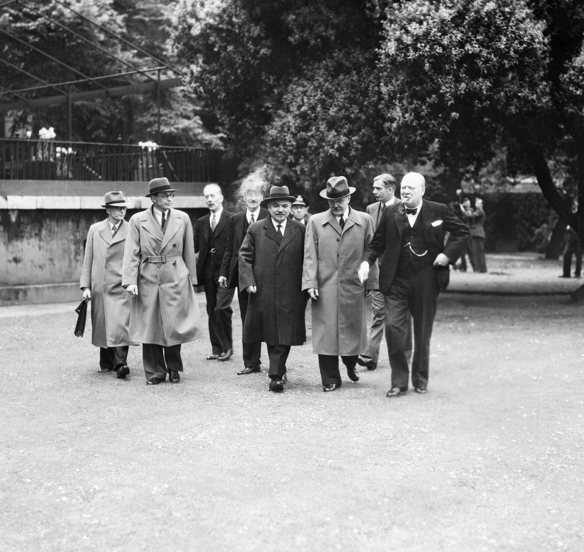 Winston Churchill with British and Soviet representatives, including Anthony Eden and Vyacheslav Molotov, in London following the signing of the Anglo-Soviet Treaty on 26 May 1942. Winston Churchill with British and Soviet representatives, including Anthony Eden and Vyacheslav Molotov, in London following the signing of the Anglo-Soviet Treaty on 26 May 1942.